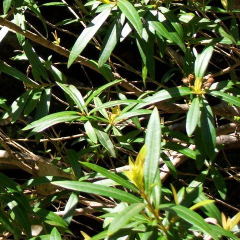 Tristania neriifolia at Ourimbah